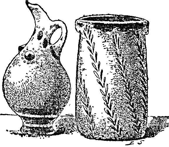 Nippled jug en pithos uit Thera.